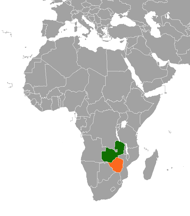 Map showing the locations of both Zambia and Zimbabwe